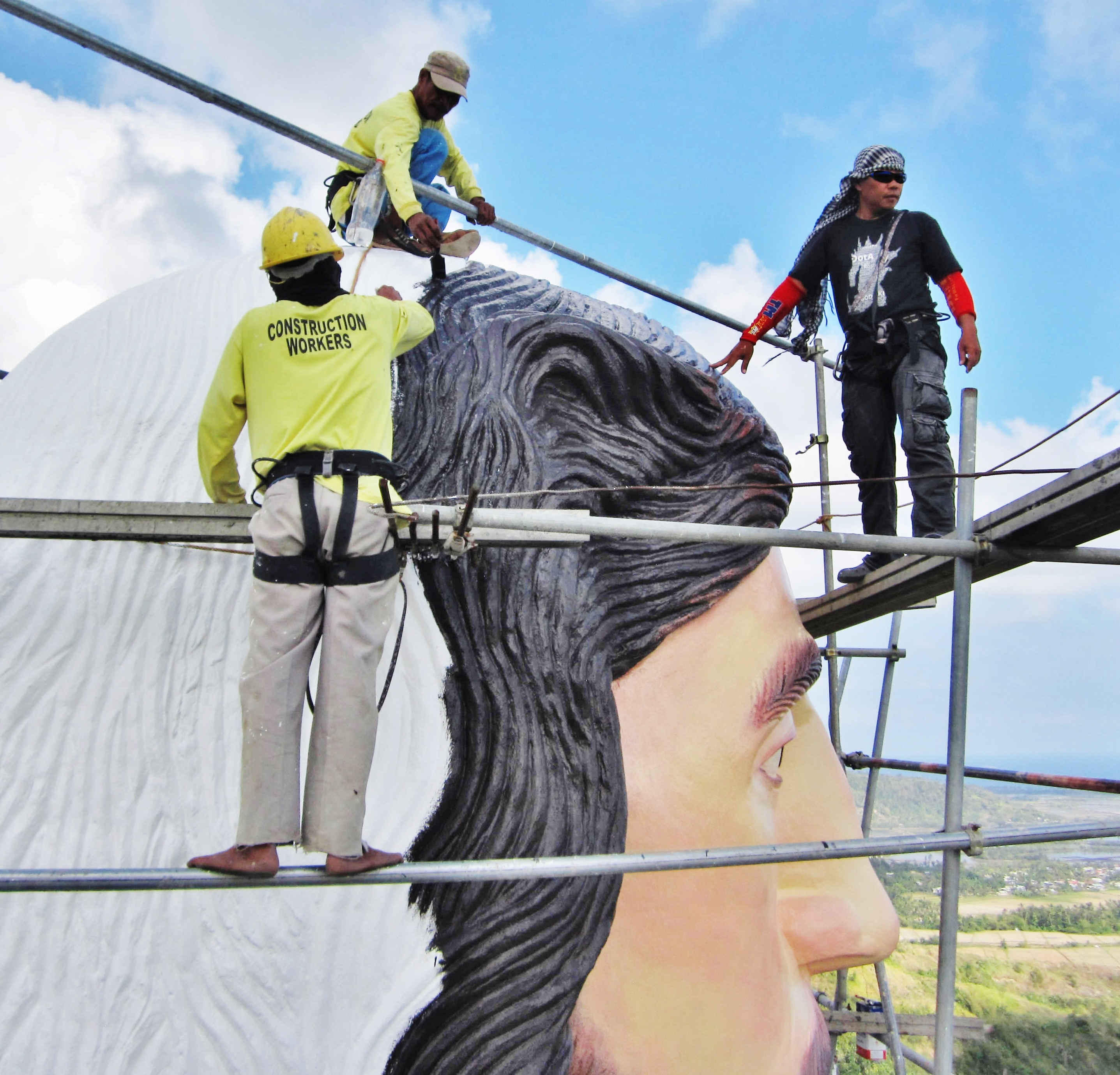 The sculptor on black shirt at work.